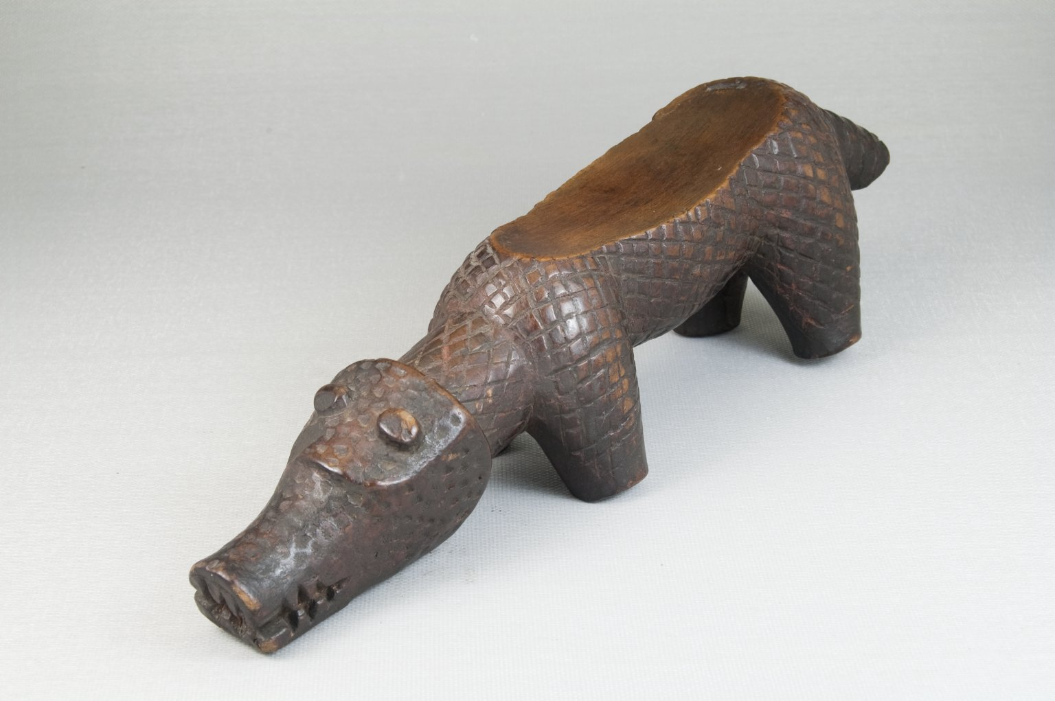 Diviner's intstrument (itoom) in form of a hippopotamus. Fiber and wooden divining discs missing.